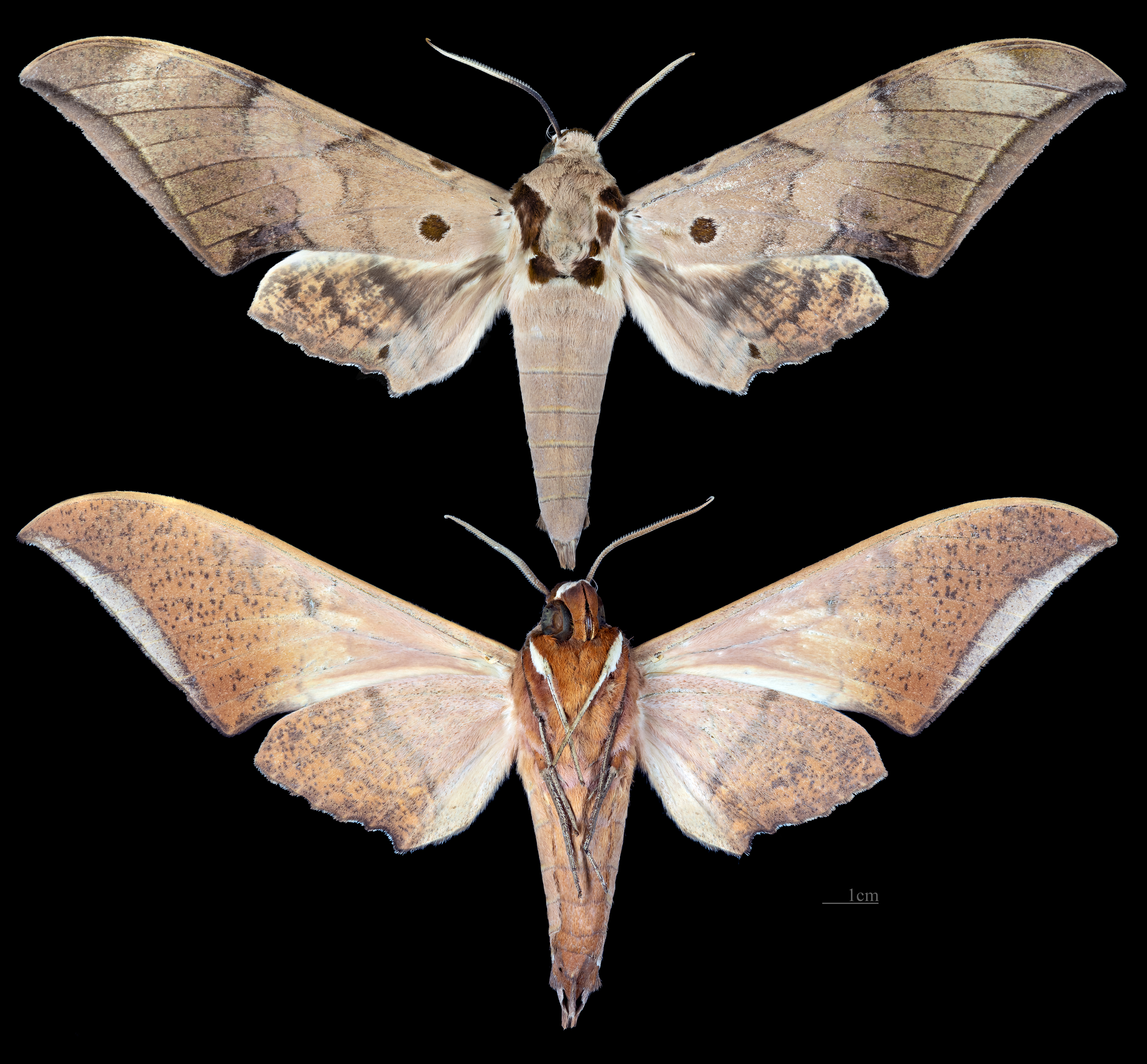 Ambulyx matti - Two views of same specimen Collection of the Mathematician Laurent Schwartz